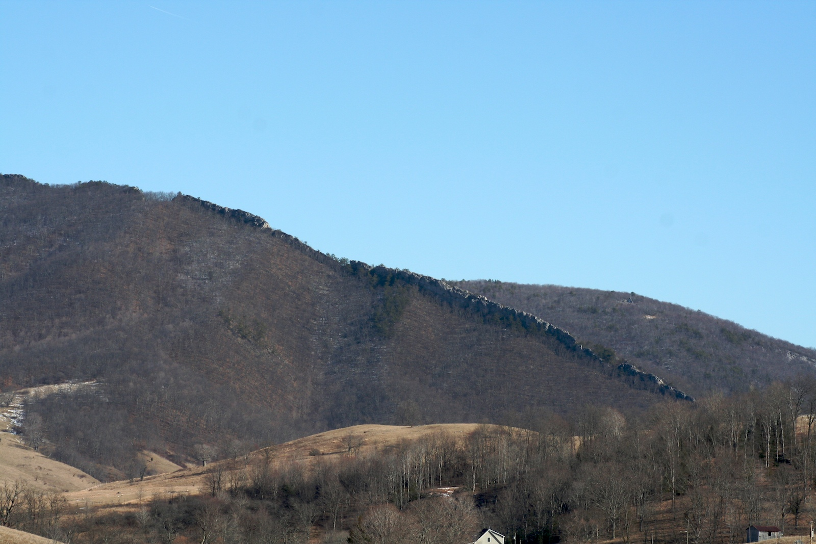 The most prominent feature in the Blue Grass Valley of Highland County, VA.